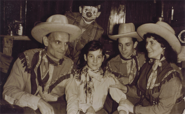 Family van der Vegt 1958